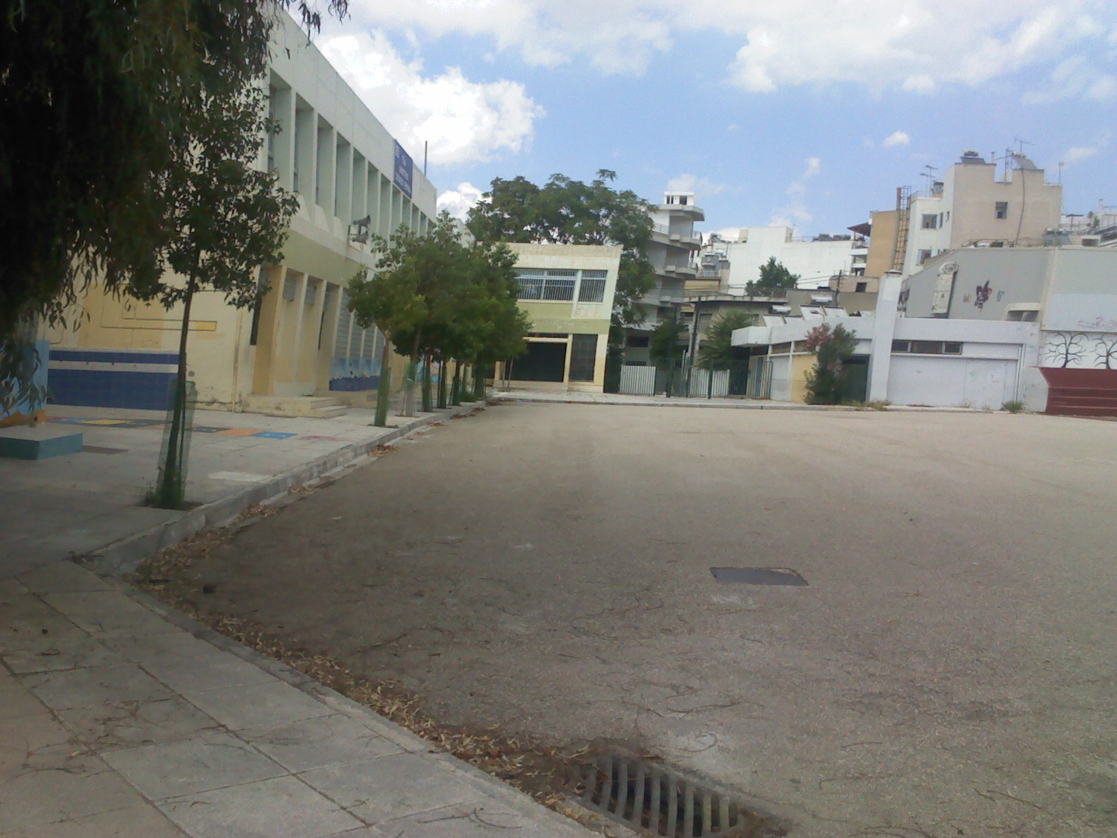 School Lefka Pireas